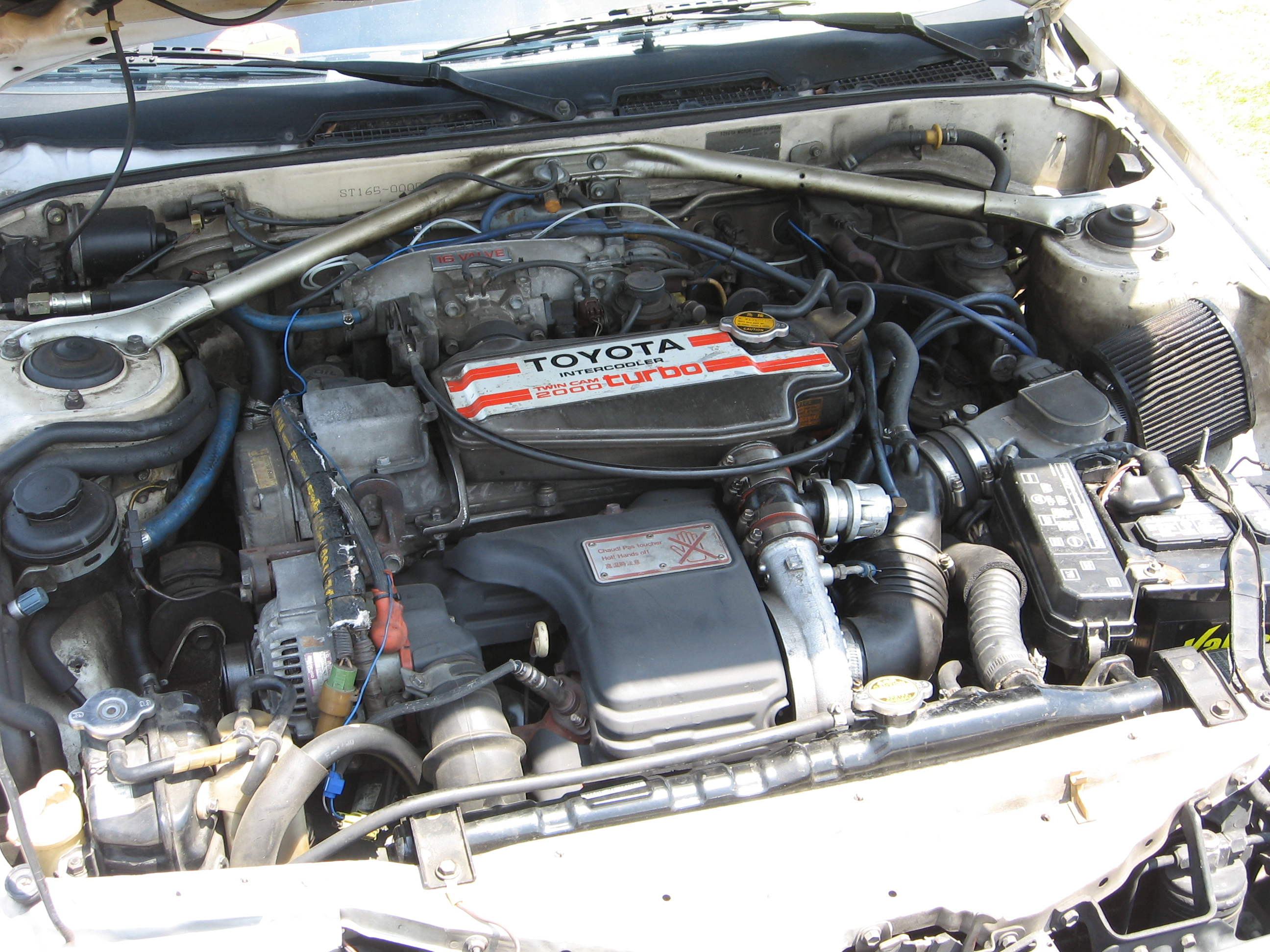 Toyota 3S-GTE engine taken at Toyota Fest 2007 in Long Beach, California.